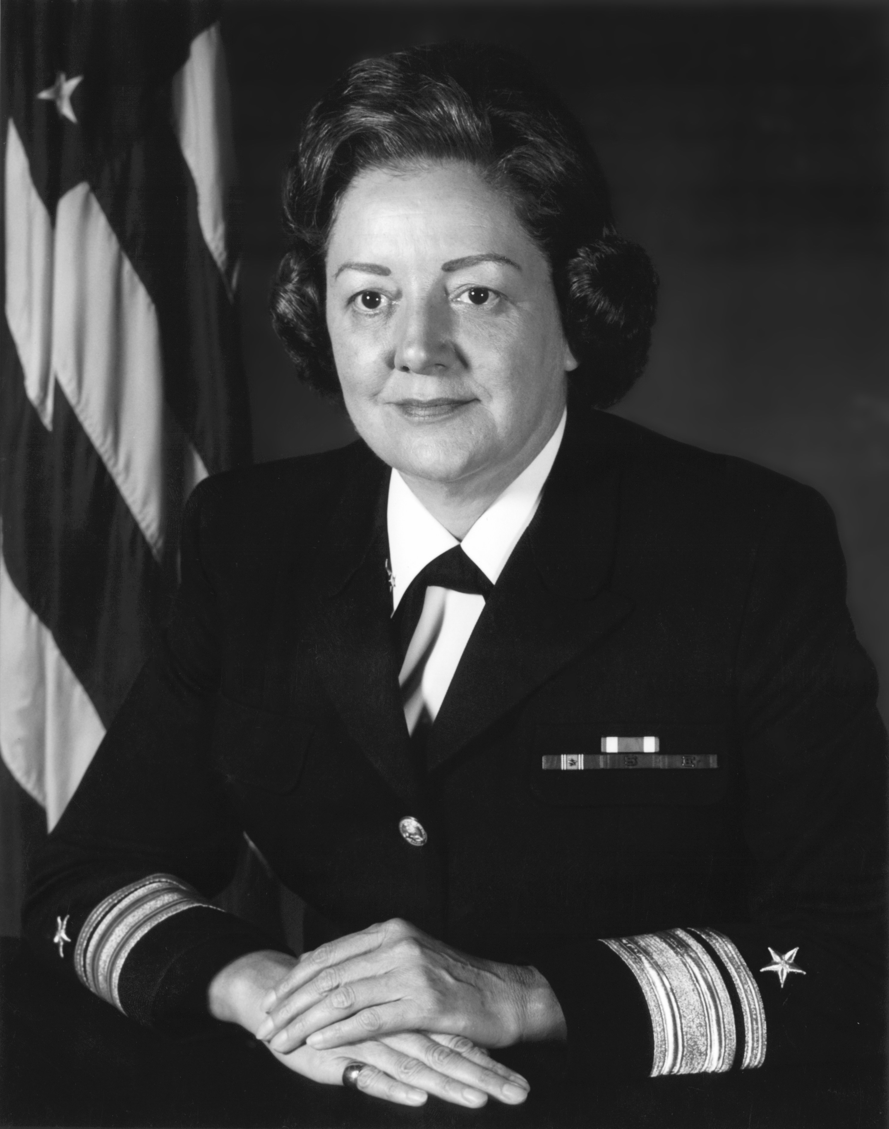 Mar. 3, 2002 — File photo of Rear Adm. Fran McKee, the first female line officer in the Navy to be promoted to flag rank (Admiral), who died Mar. 3, 2002 after suffering a stroke. Admiral McKee was 75.